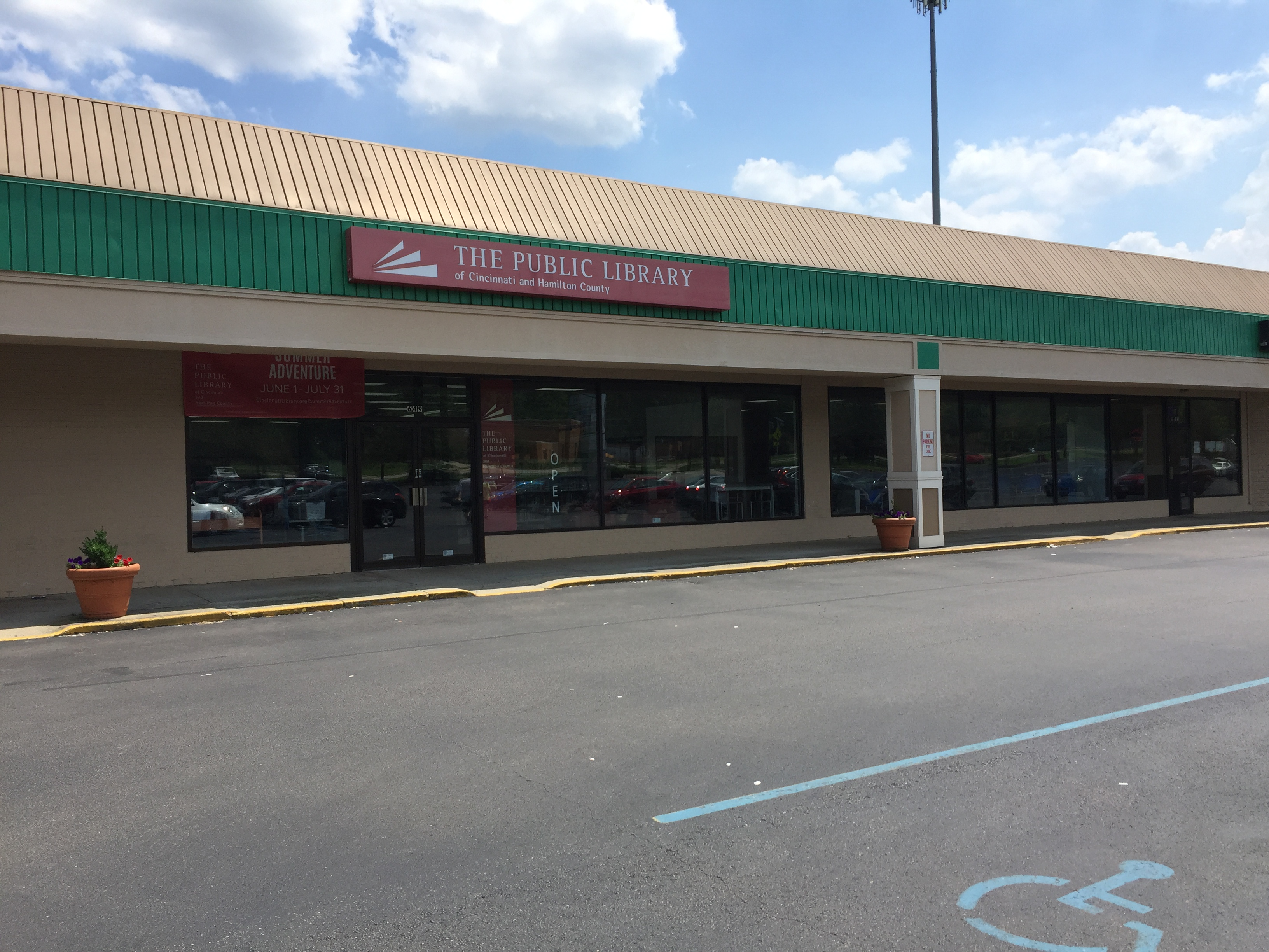 Loveland Branch of the Public Library of Cincinnati and Hamilton County in 2019